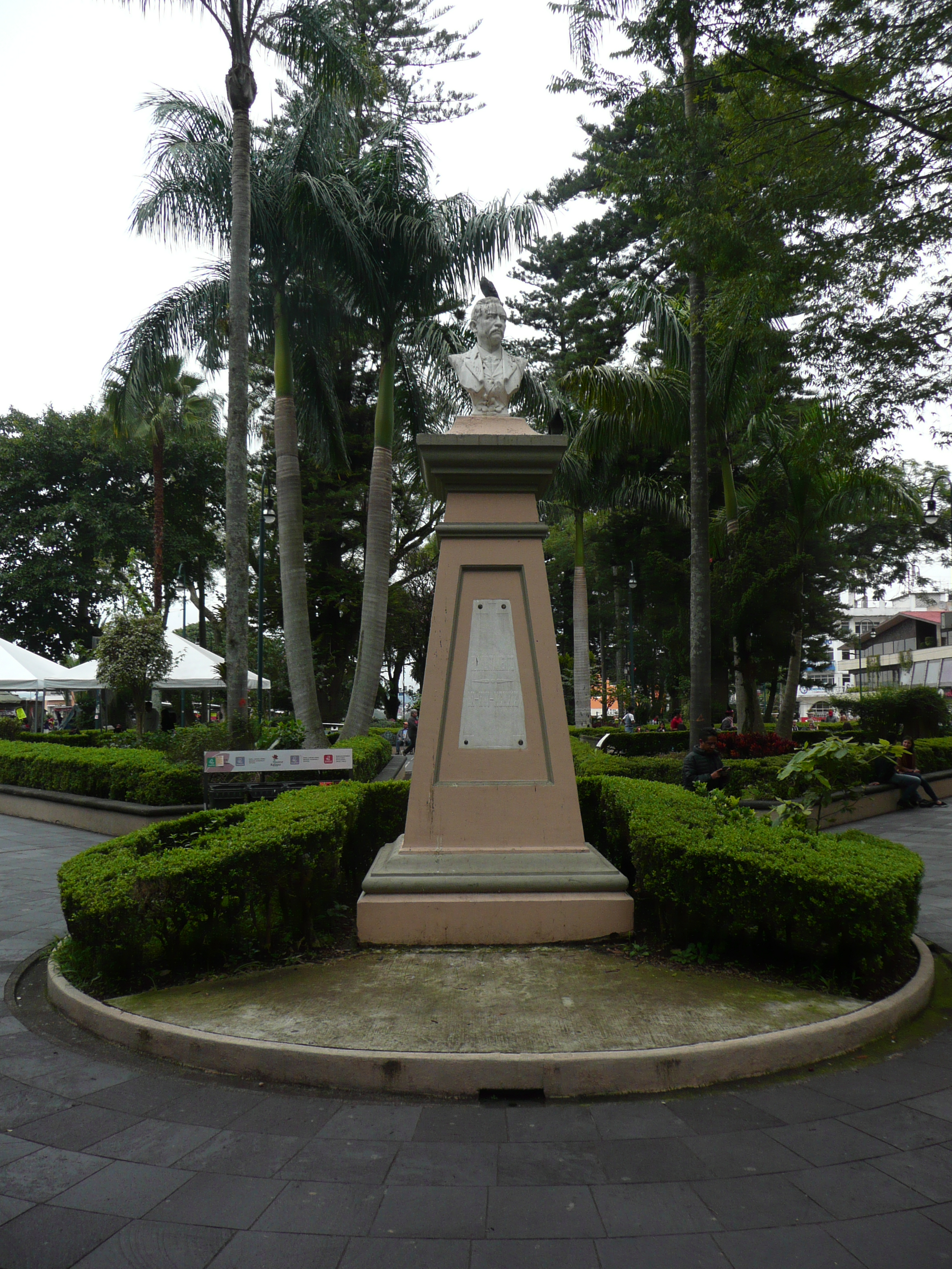 Juan de la Luz Enríquez bust. Juárez park, Xalapa, Veracruz.